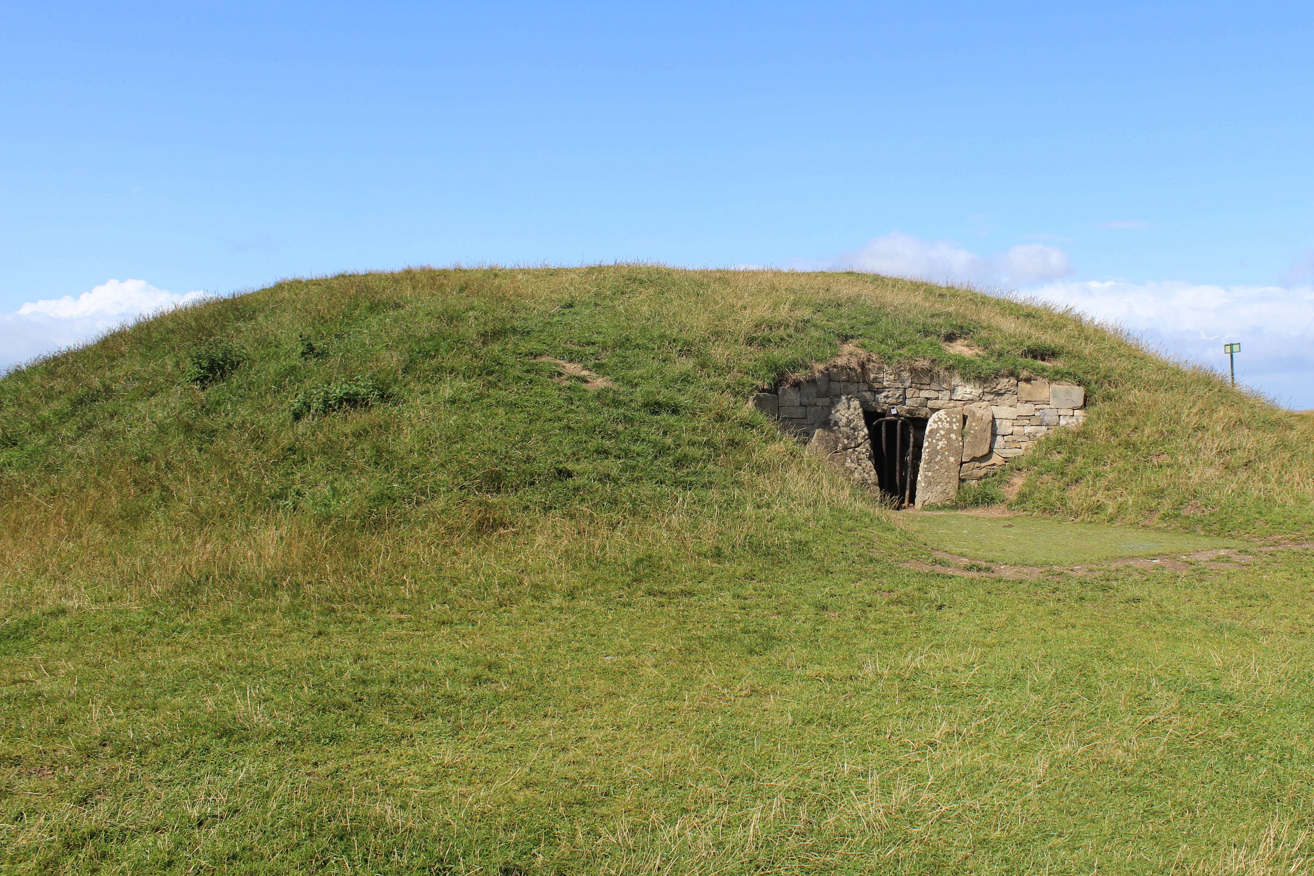 Mound of Hostages on the Hill of Tara